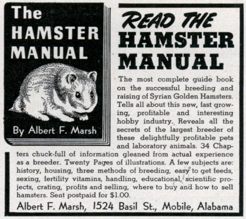 from Popular Science magazine, April 1948, this ad from Gulf Hamstery appeared on a page full of classified ads. This same ad appeared in other issues of this magazine and other magazines targeting a similar audience perhaps between 1948-1951. This ad appeared with no copyright notice in the magazine.